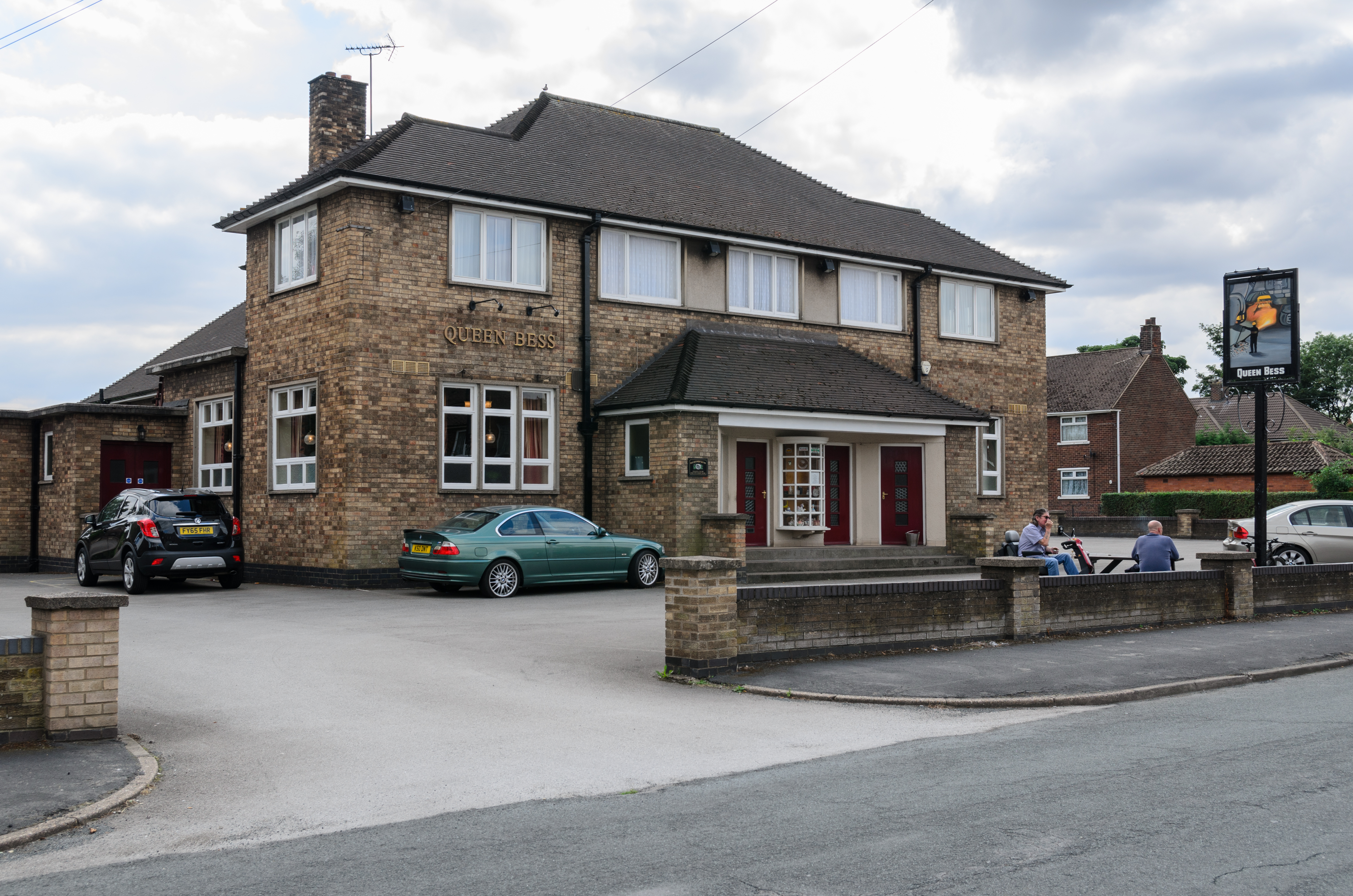 Pub Queen Bess in Scunthorpe, left side